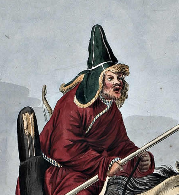 A fragment of the painting "Kirgiz" published by Johann Cappi early in the 19th century. The warrior wears a so called "malacai" (малахай) hat